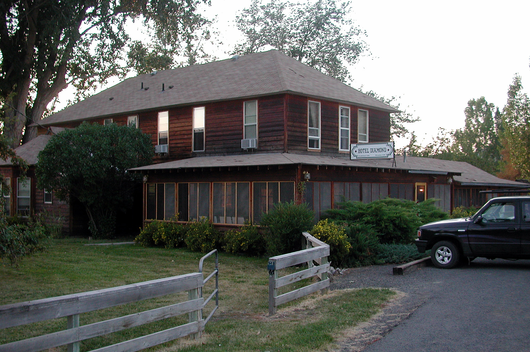 Hotel Diamond in Diamond, Oregon, in the United States. View is to the northwest.